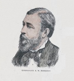 Glass slide of Albert Hastings Markham